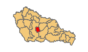 Location of municipality inside Međimurje County